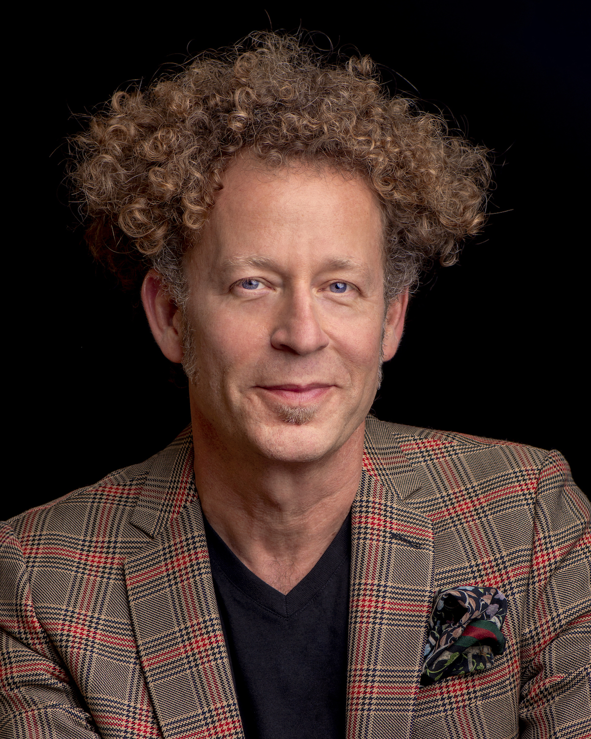 Ken Goldberg profile photo (2019)